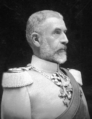 Carol I of Romania